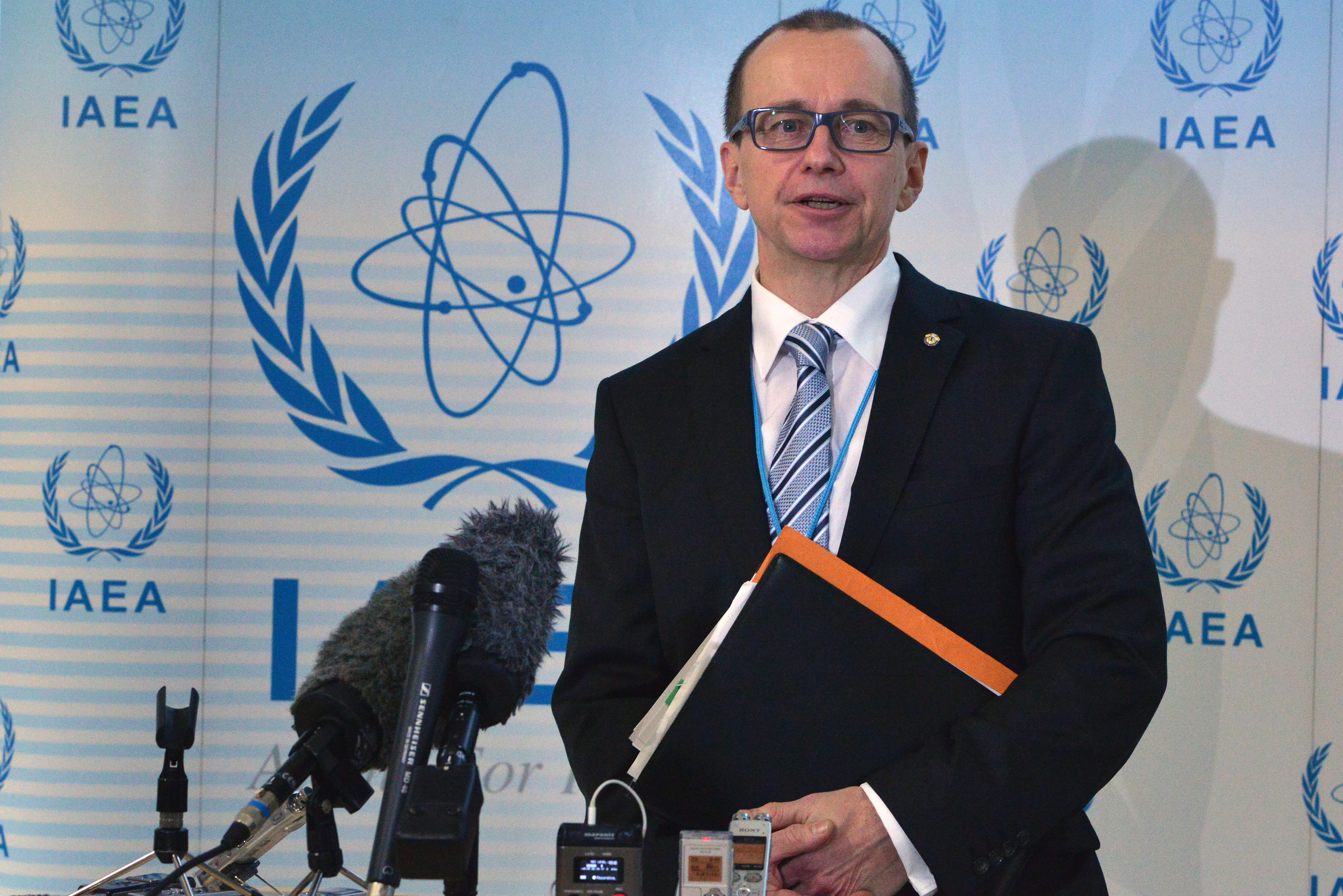 Mr Tero Varjoranta, IAEA Deputy Director General for Safeguards, speaks with journalists on 20 January 2014 at the Agency's headquarters in Vienna. Photo Credit: Dean Calma / IAEA